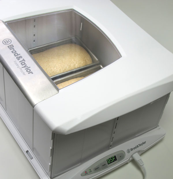 An electric bread proofer designed for home use